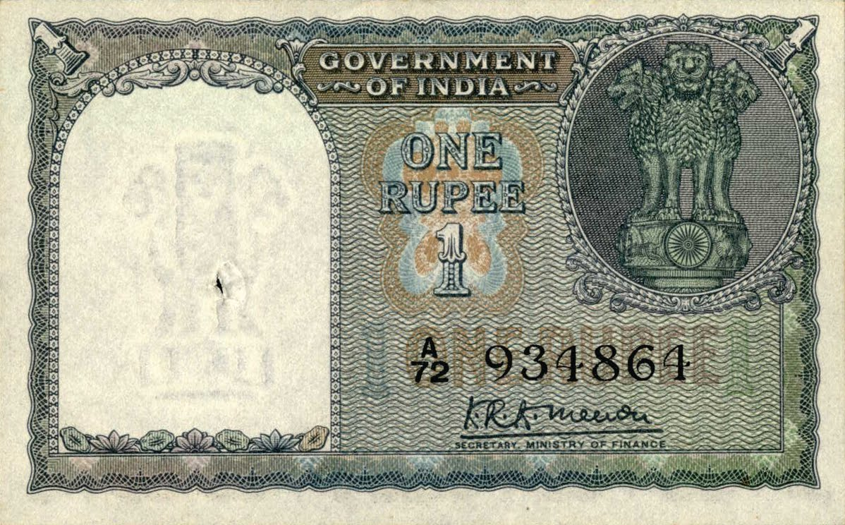 First banknote of indepedent India, one rupee, 1947.